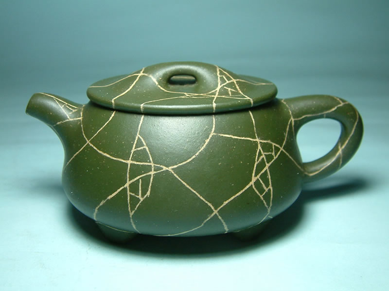 This is a Yixing Purple-sand (Zisha) teapot made by my aunt. And i made this picture.